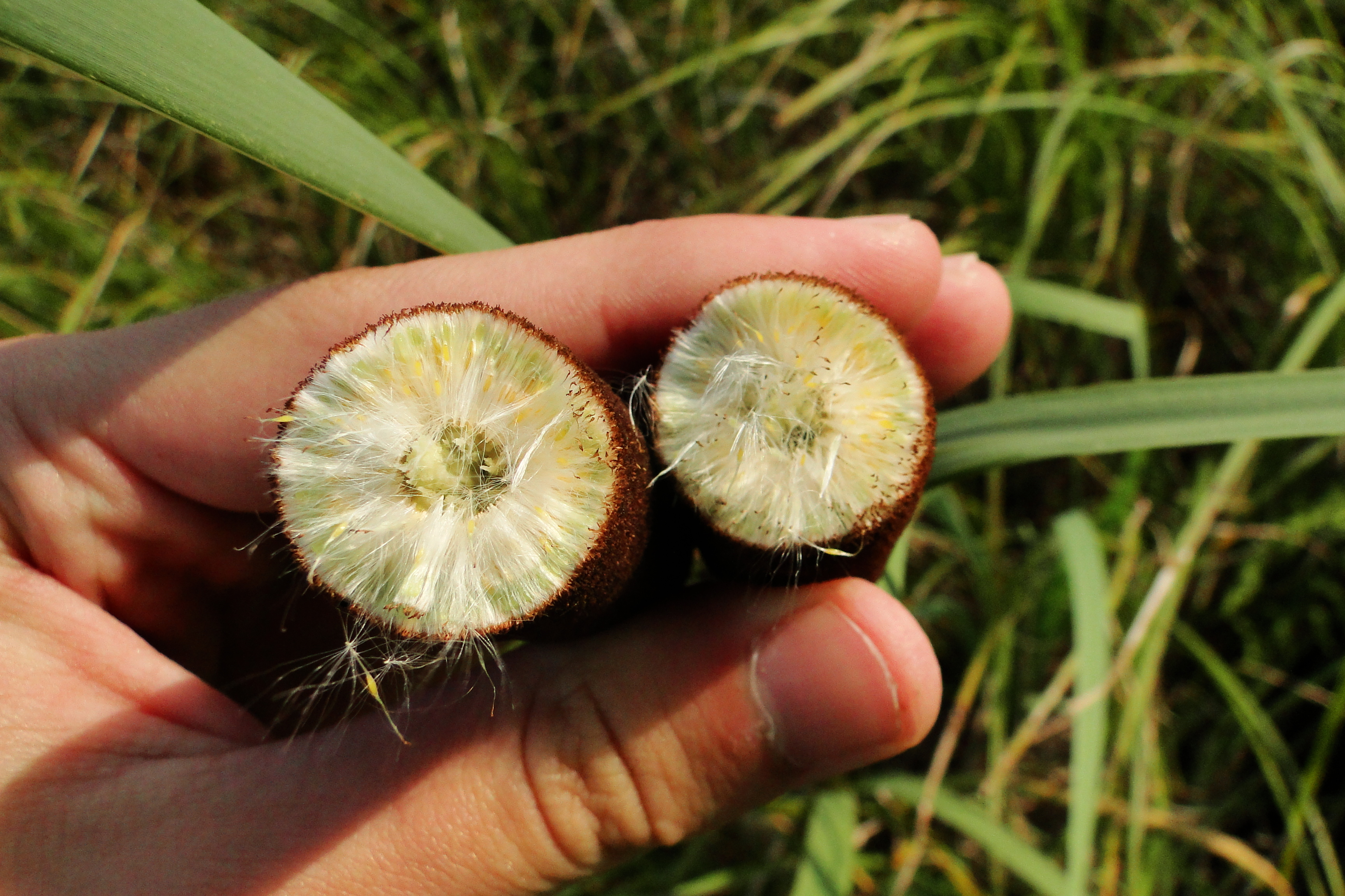 Broken typha